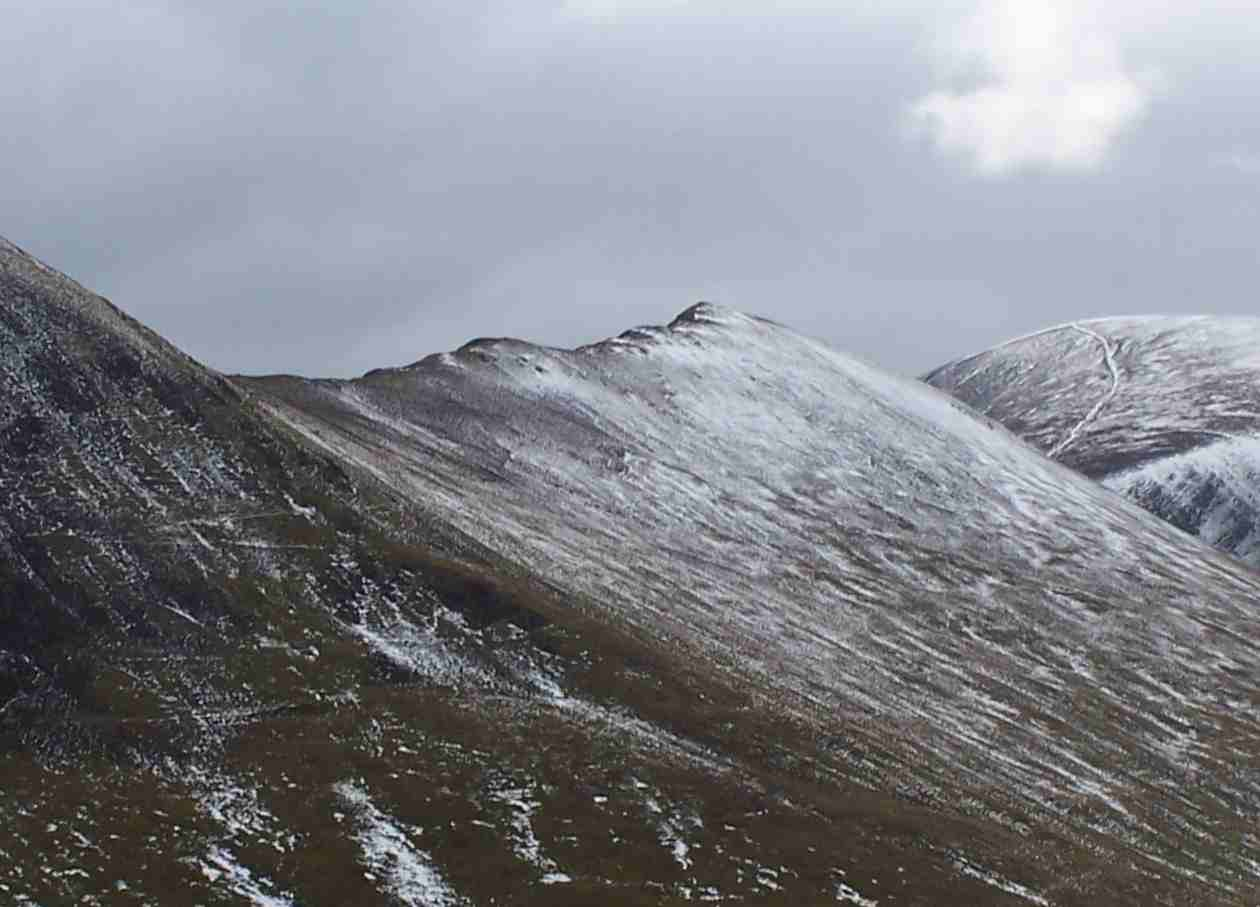 The northern slopes of Scar Crags from Stonycroft Gill. Personal photograph taken by Mick Knapton on 20th March 2006